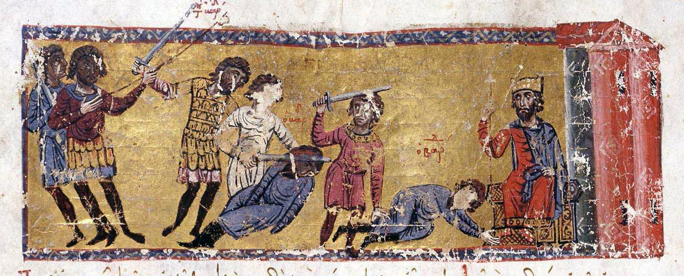 Skyllitzes Matritensis, fol. 80ra, detail. Miniature: The murder of Bardas at the feet of the Emperor Michael III in 865-866. References: Ioannis Scylitzae Synopsis Historiarum. Editio Princeps. Rec. Ioannes Thurn, p. 112, in: Corpus Fontium Historiae Byzantinae 5 Series Berolinensis, 1973 Tsamakda V.: The illustrated chronicle of Ioannes Skylitzes in Madrid, p. 122 Grabar A., Manoussacas M.: L'illustration du manuscript de Skylitzes de Madrid, p. 56 Божков А.: Миниатюри от Мадридския ръкопис на Йоан Скилица, p. 200